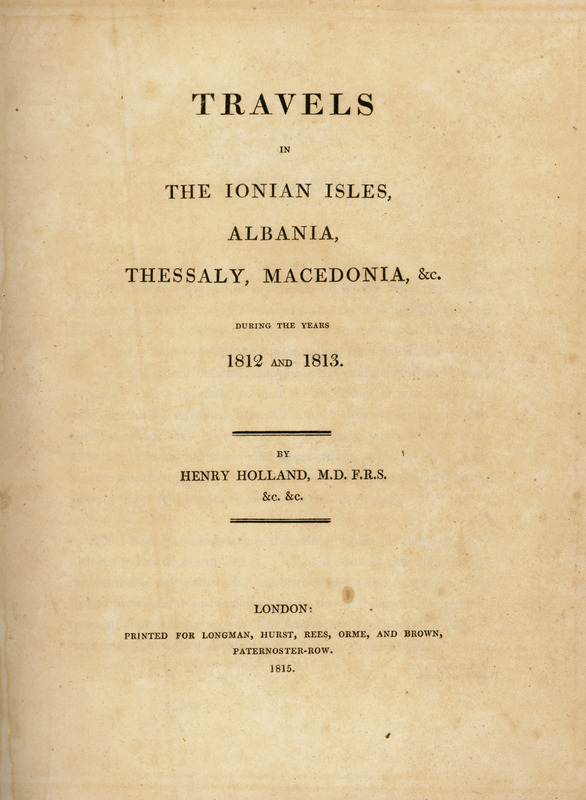 Title page - Holland Sir Henry - 1815